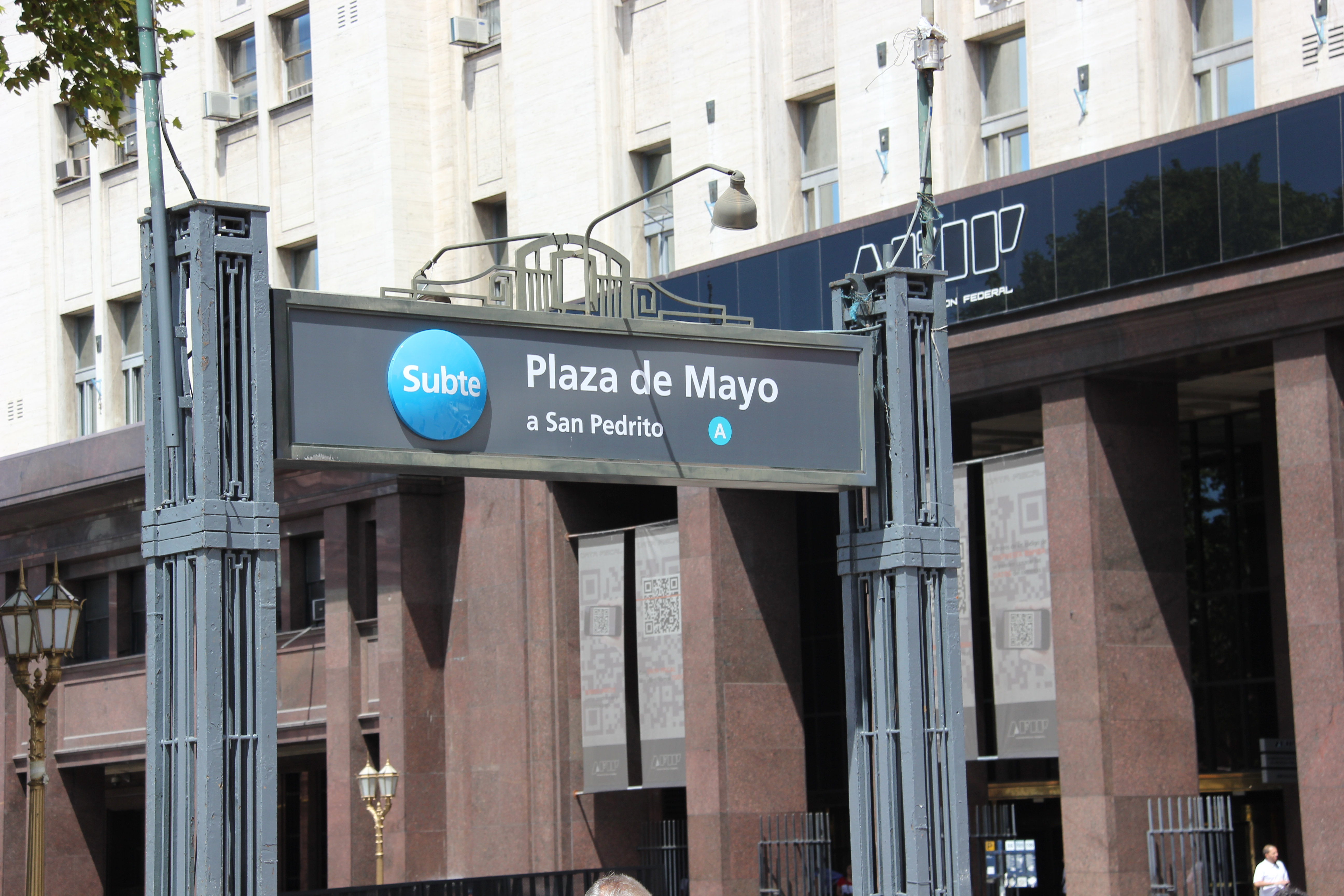 Metro entrance on Plaza de Mayo, Buenos Aires, Argentina